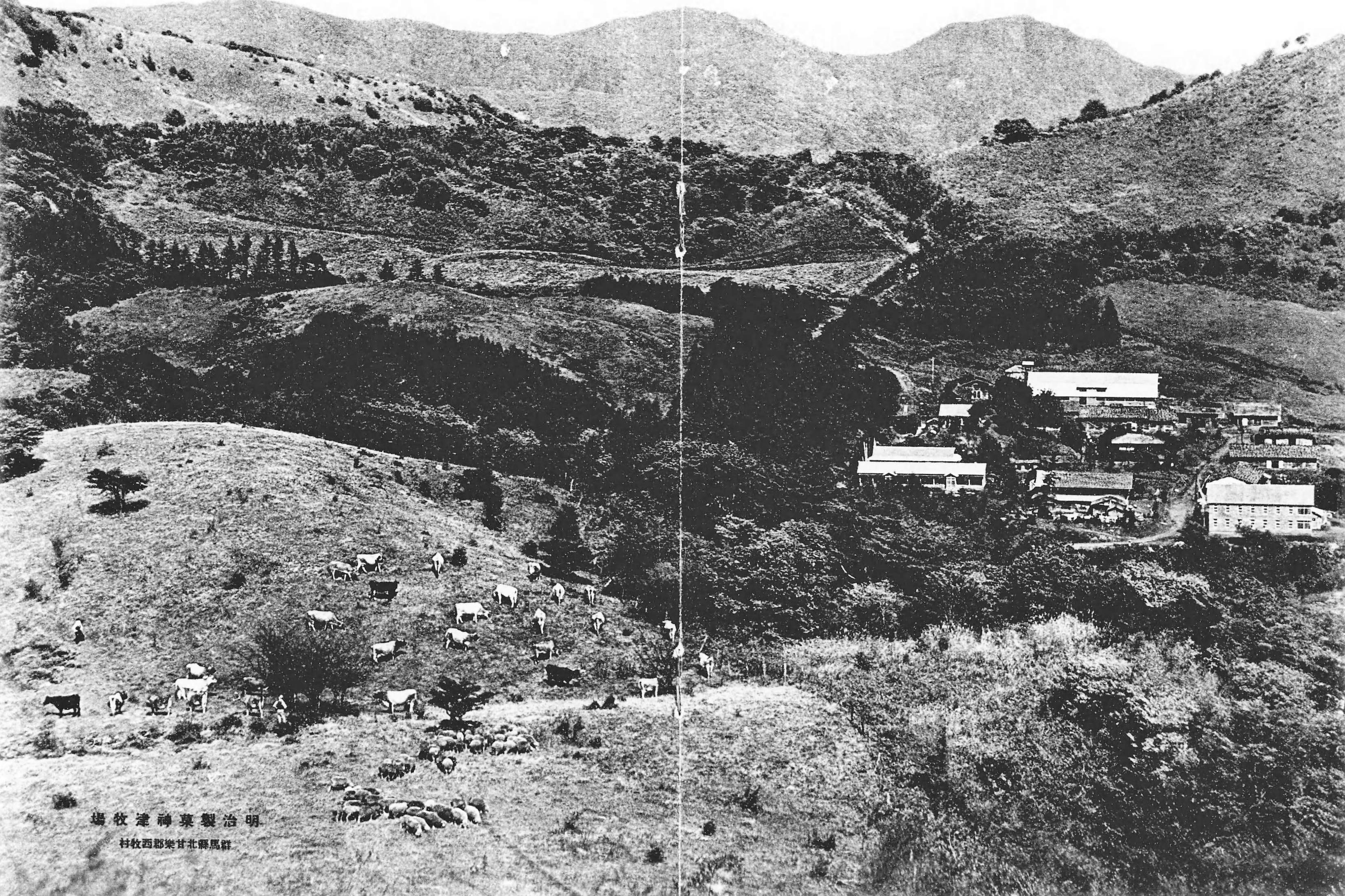 Kouzu Dairy Farm.